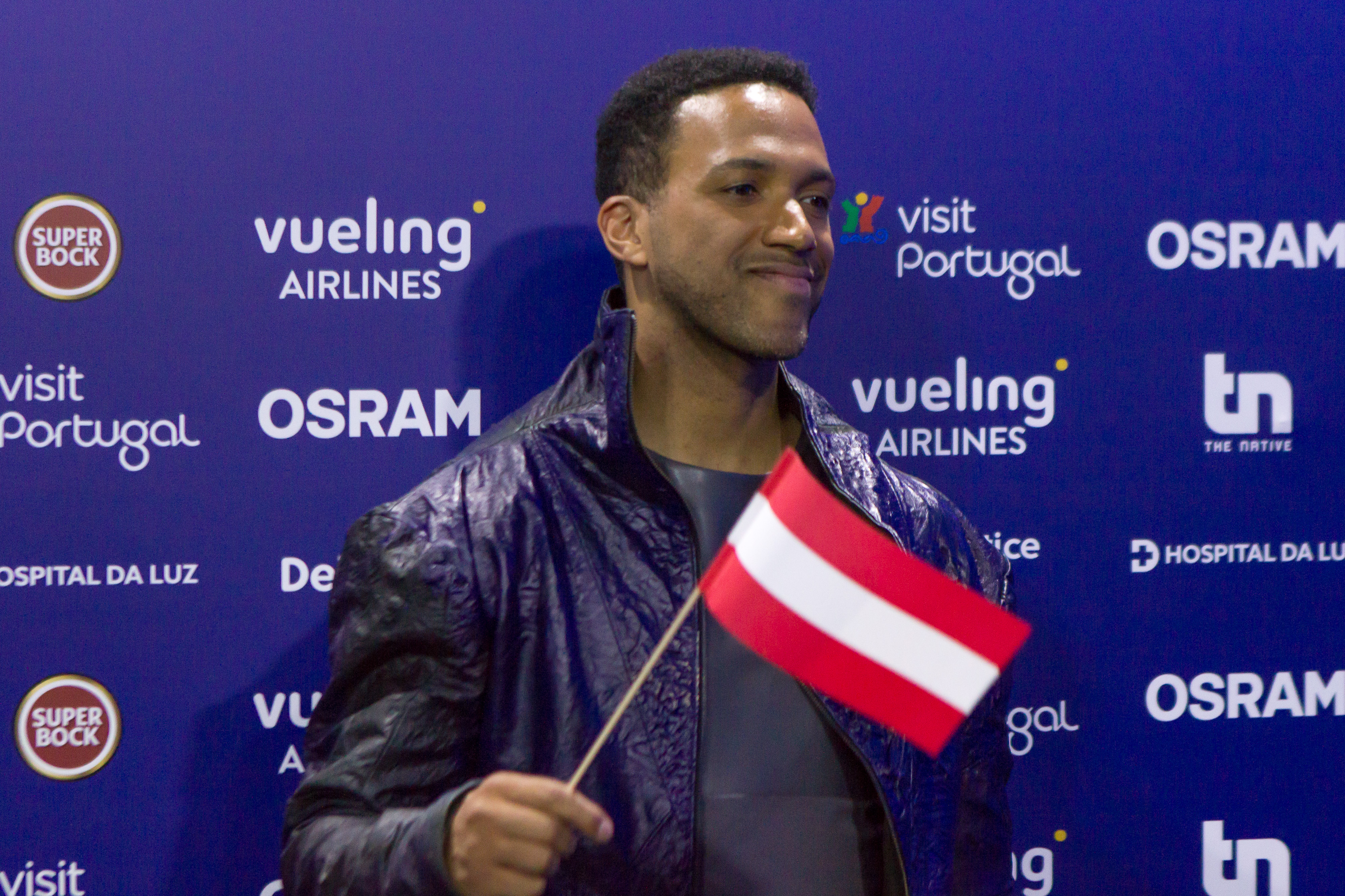 Press conference after the first Semi-Final of the 2018 Eurovision Song Contest